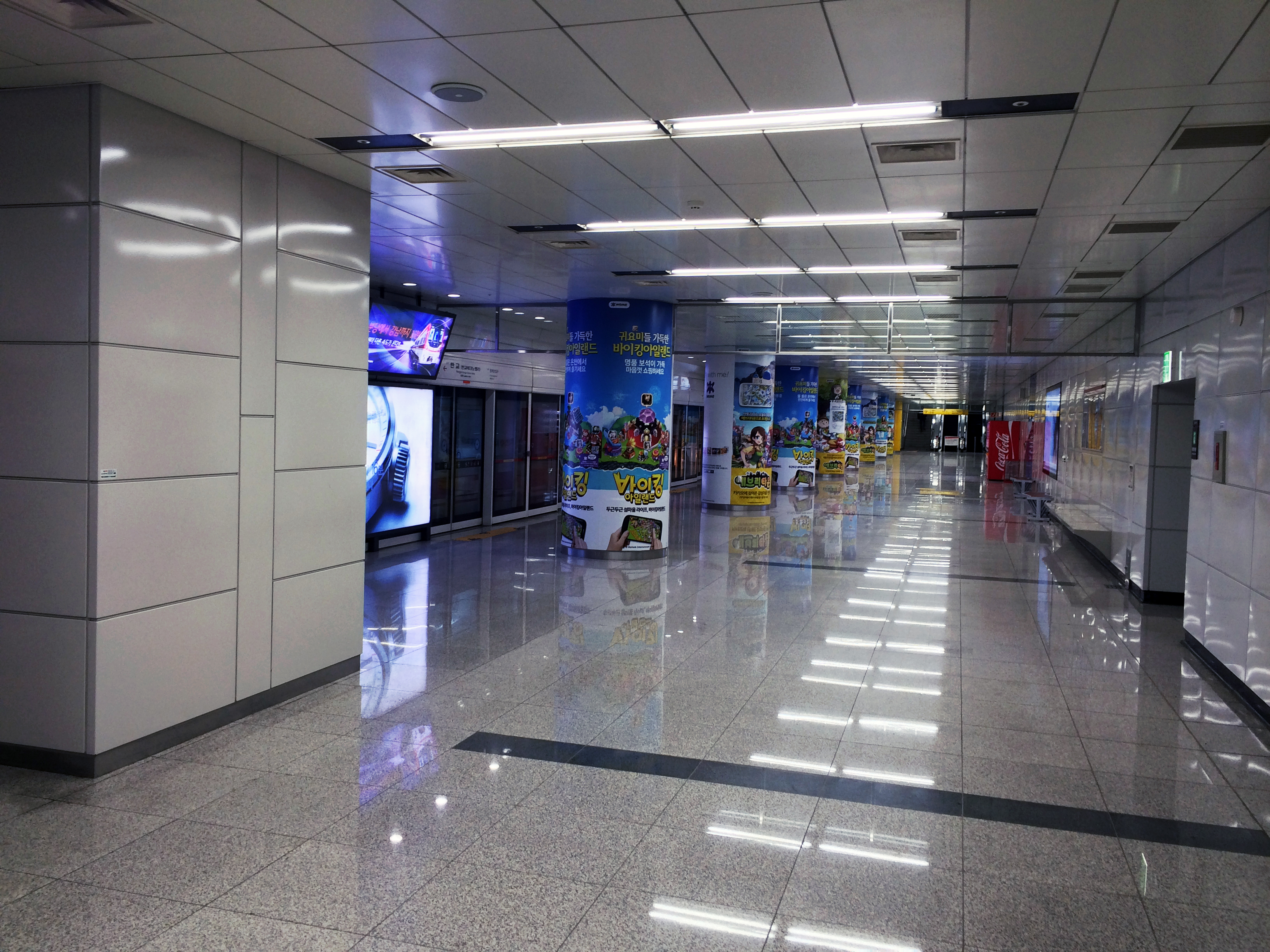 Platform of Pangyo(Pangyo Techno Valley) Station